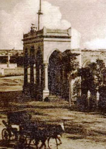 Aziziyah Police Dept in 1914 Aleppo, Syria.